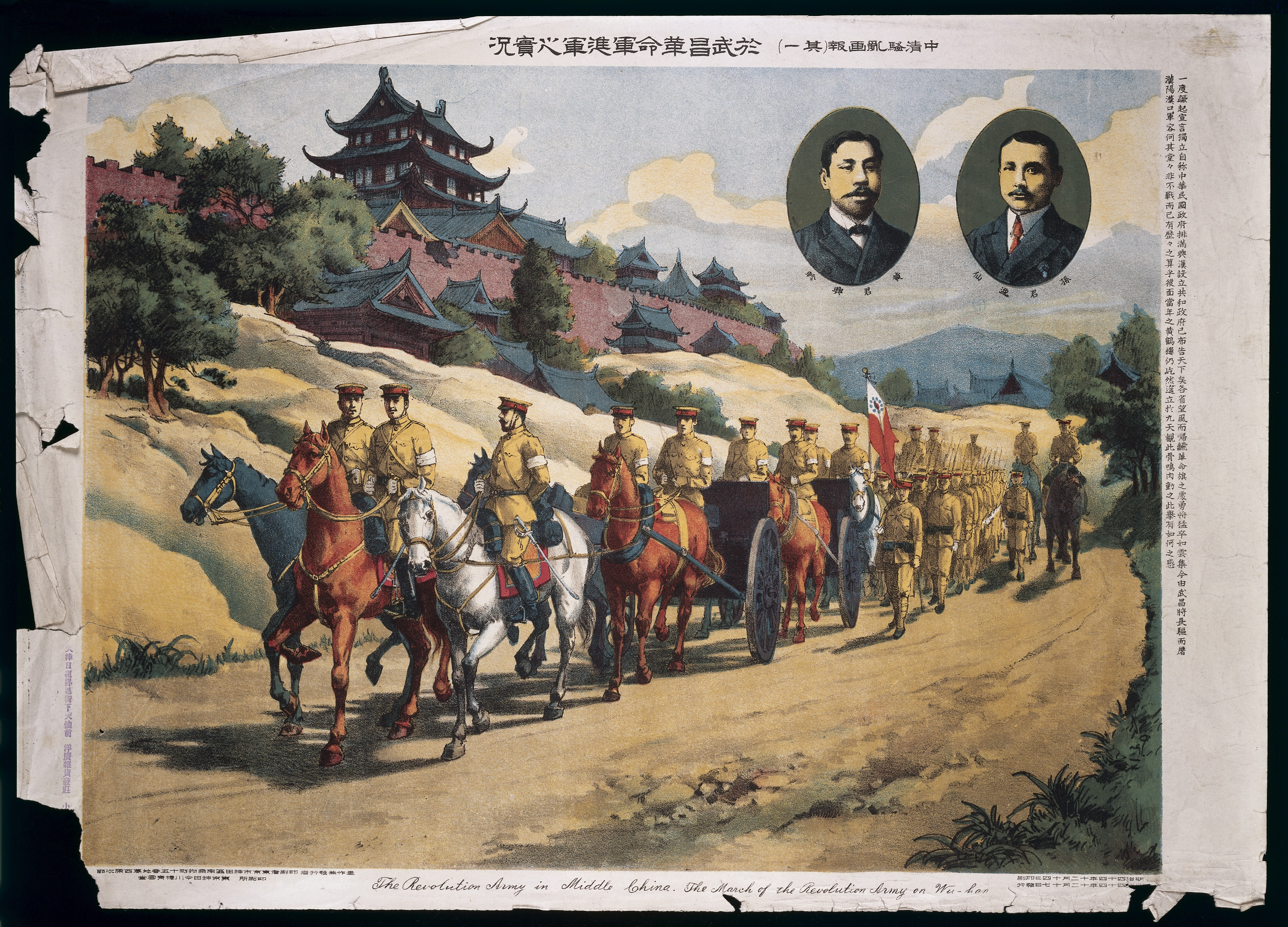 An episode in the revolutionary war in China, 1911: the march of the revolutionary army on Wuhan with two portraits of revolutionary leaders in roundels at top; the right one resembles Sun Yat Sen Iconographic Collections Keywords: Revolution; Chinese Revolution; Military History; Sun Yat Sen; Fighting; China; Battles; T. Miyano; Xinhai Revolution; Manchu (Qing) Dynasty